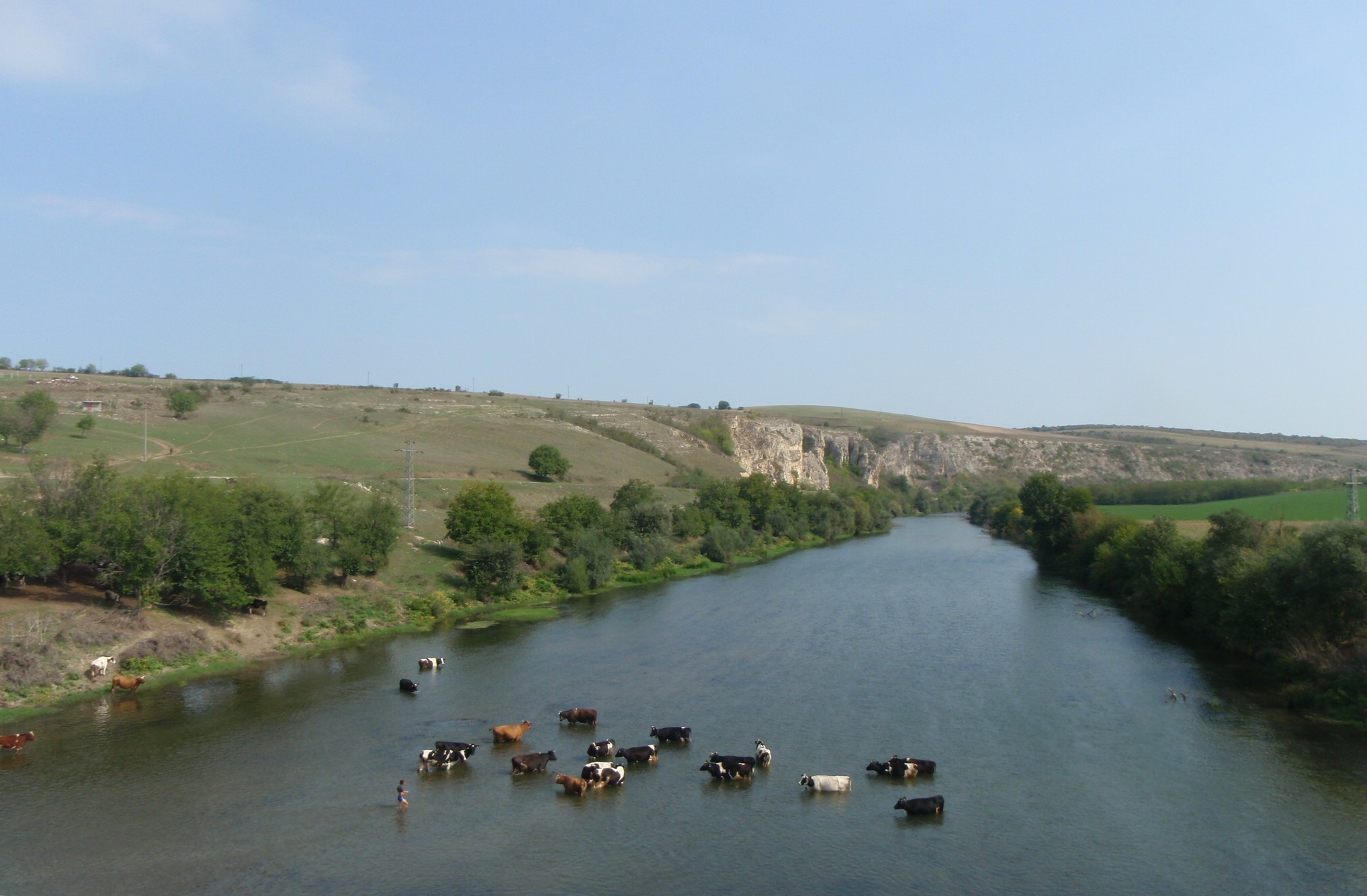 Yantra/Jantra River at Beltsov (Belcov) near Tsenovo (Cenovo) in Ruse Province, Bulgaria. Shepherd striving with his cattle herd.